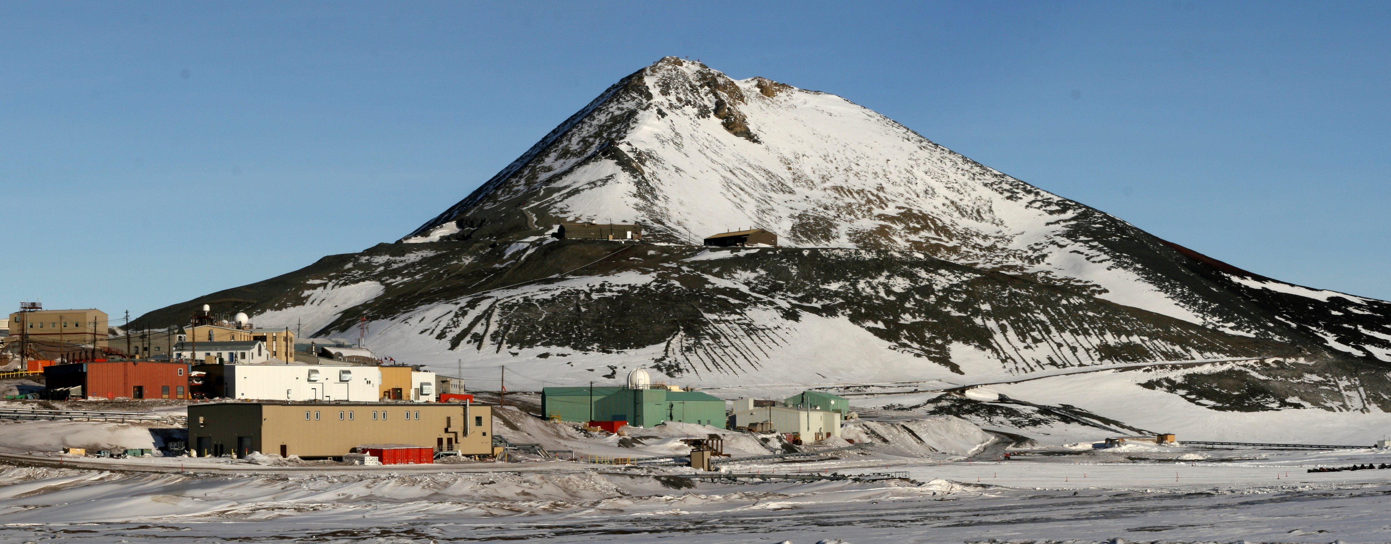 Observation Hill on Ross Island, Antarctica. Image is composite of three exposures stitched together using Panorama Tools.